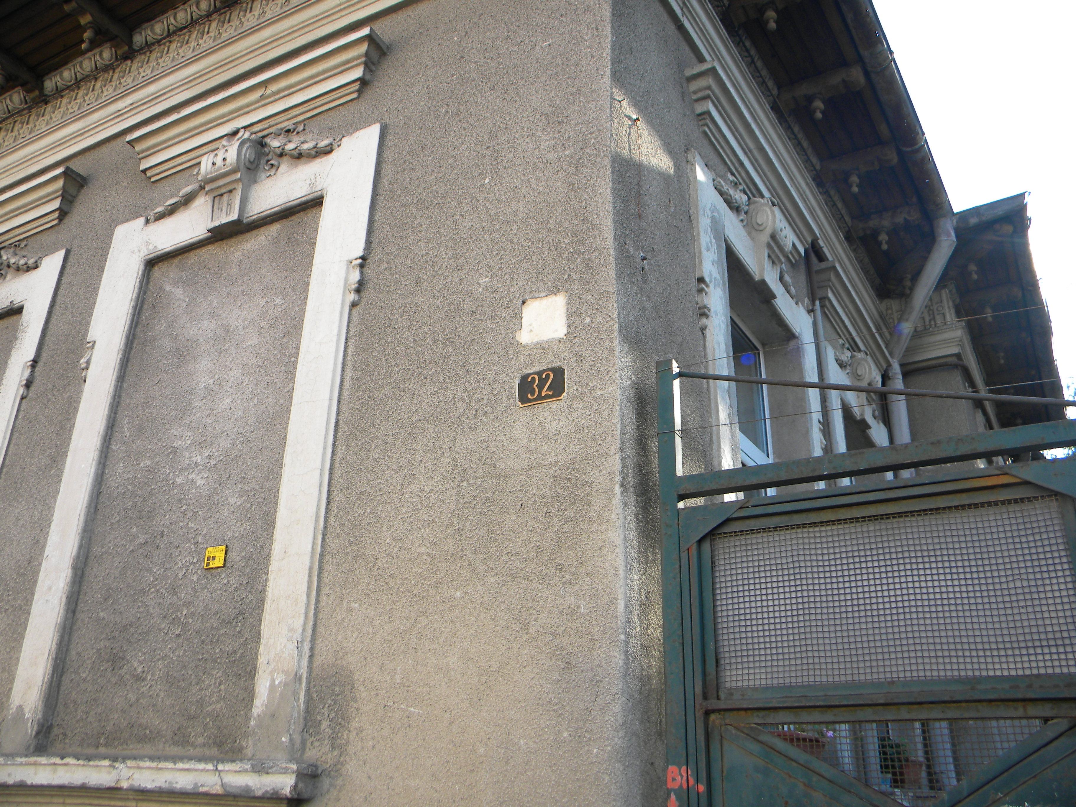 Bucuresti, Romania, Str. Matei Voievod nr. 32, sect. 2, (B-II-m-B-19165)